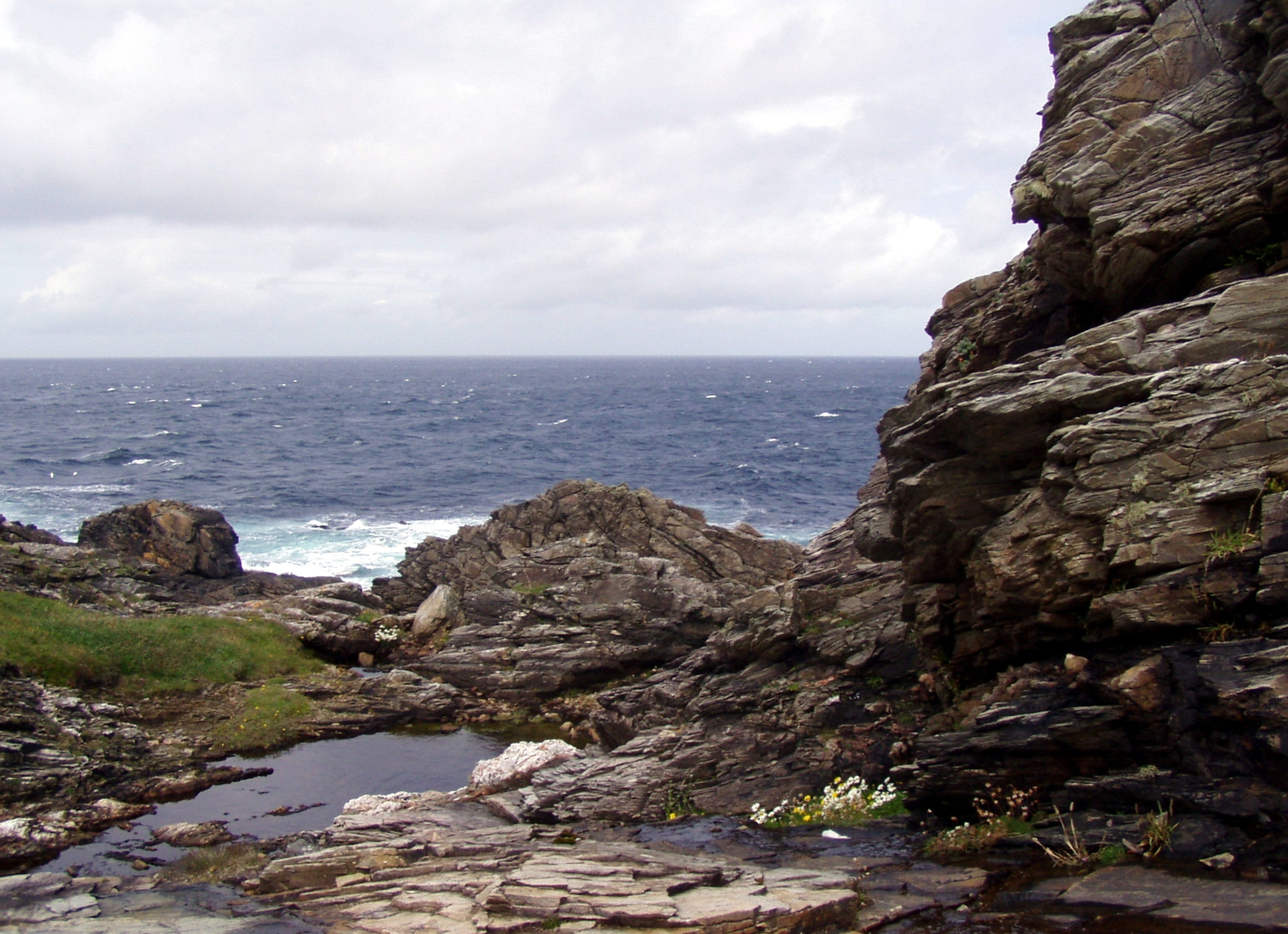 Picture of Malin Head, the most northerly headland of the mainland of Ireland